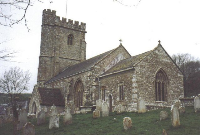 Litton Cheney: parish church of St. Mary Another Dorset church with a 15th-century tower which was spared restoration in the 19th, which the rest of the building underwent.